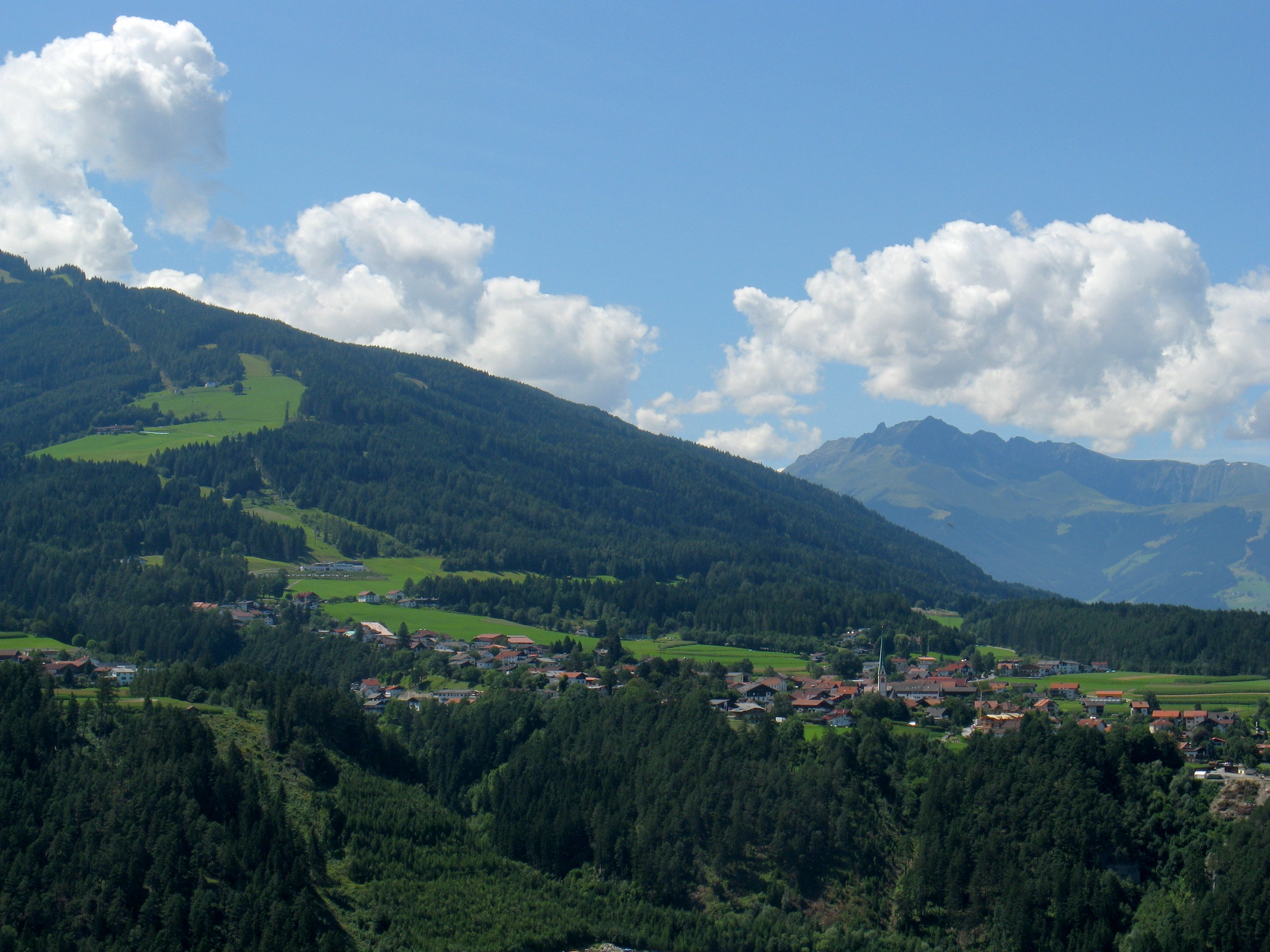 view of village Mutters in Tyrol, Austria photo taken from: Igls